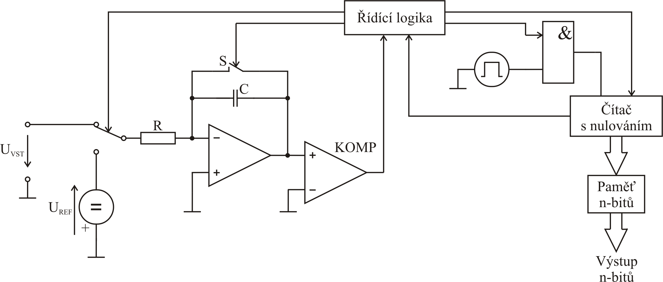 ADC